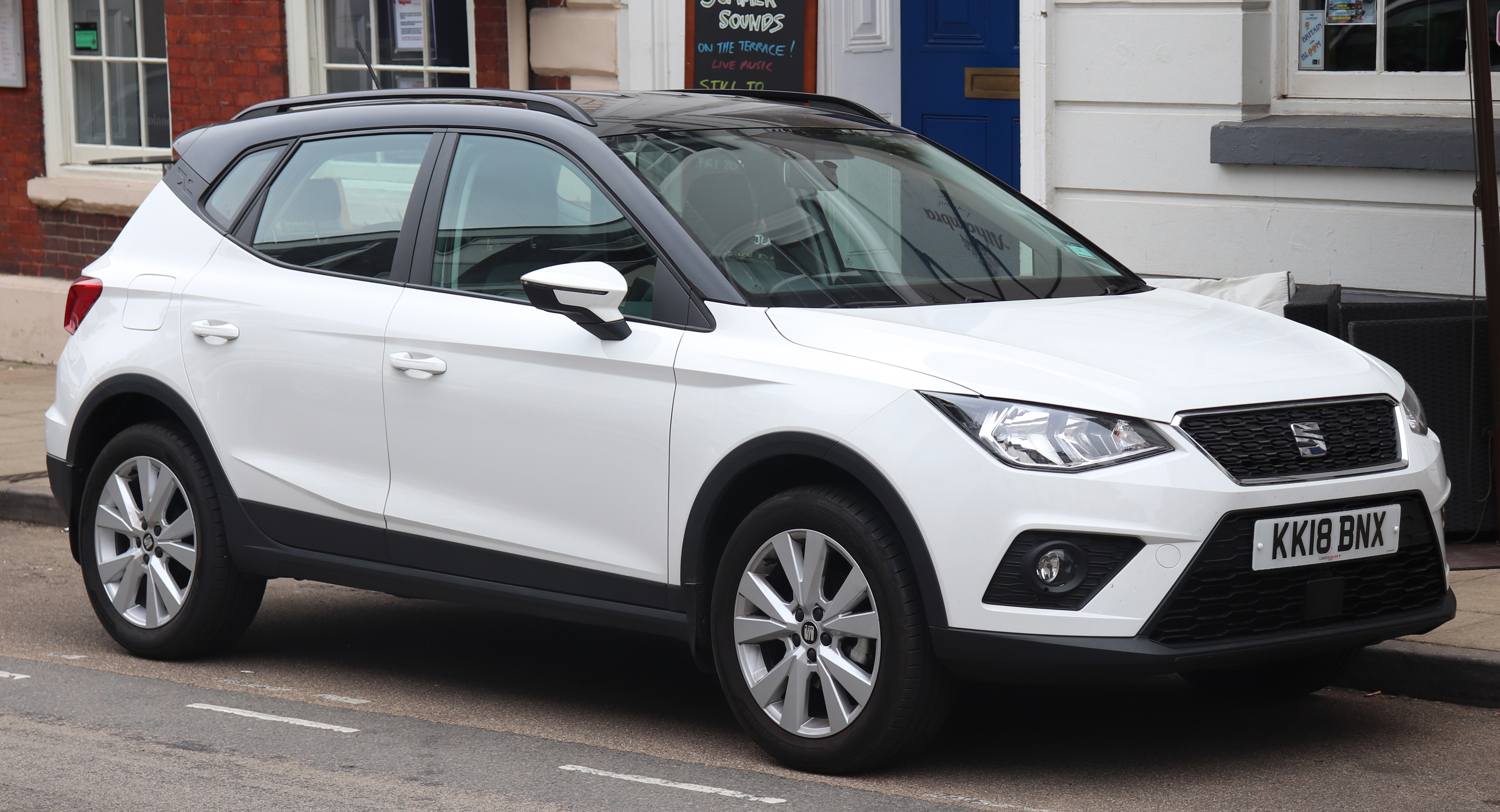 2018 SEAT Arona SE Technology TSi 1.0 Front Taken in Warwick